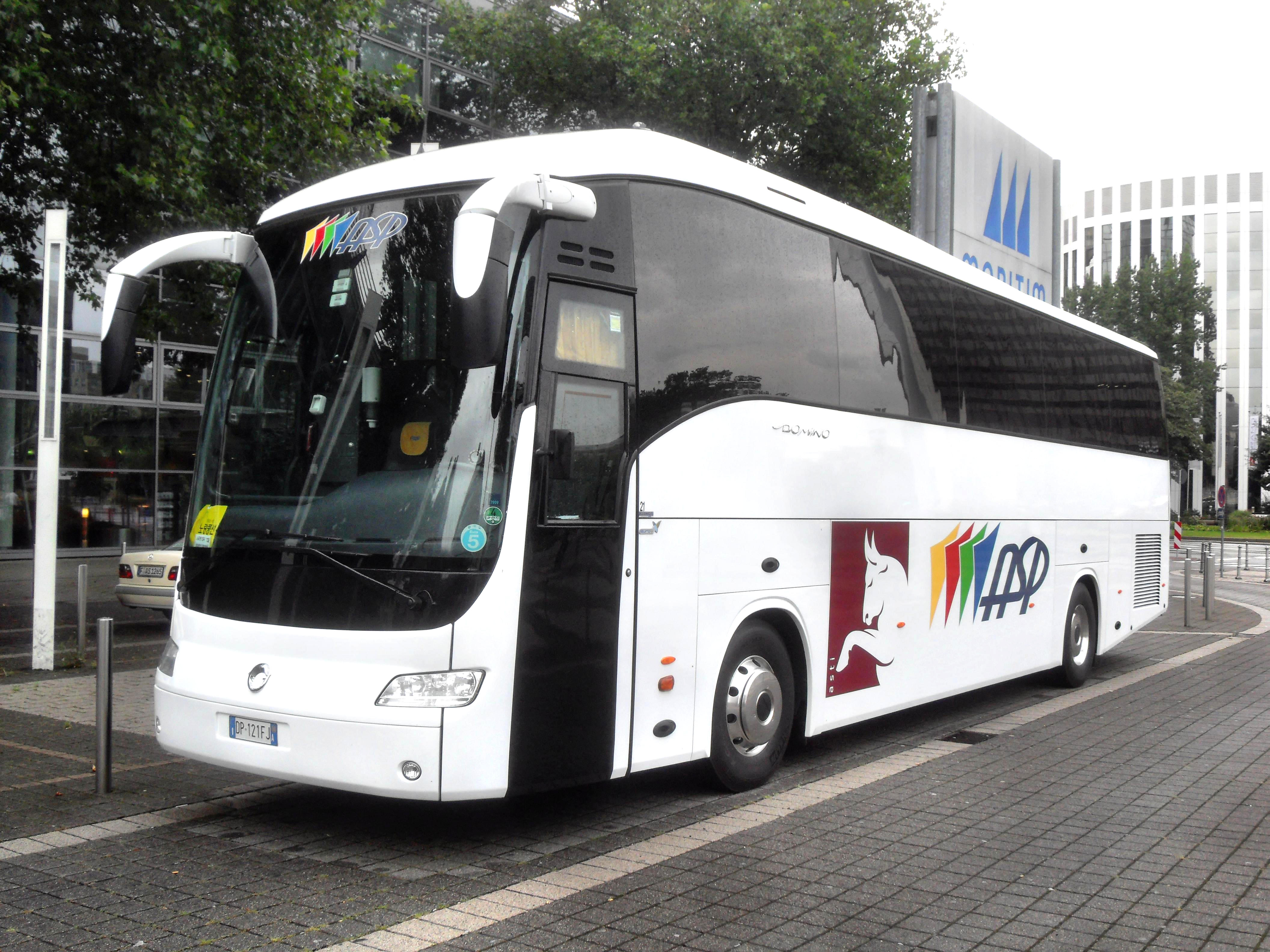 Irisbus Domino coach in Frankfurt am Main, Germany.